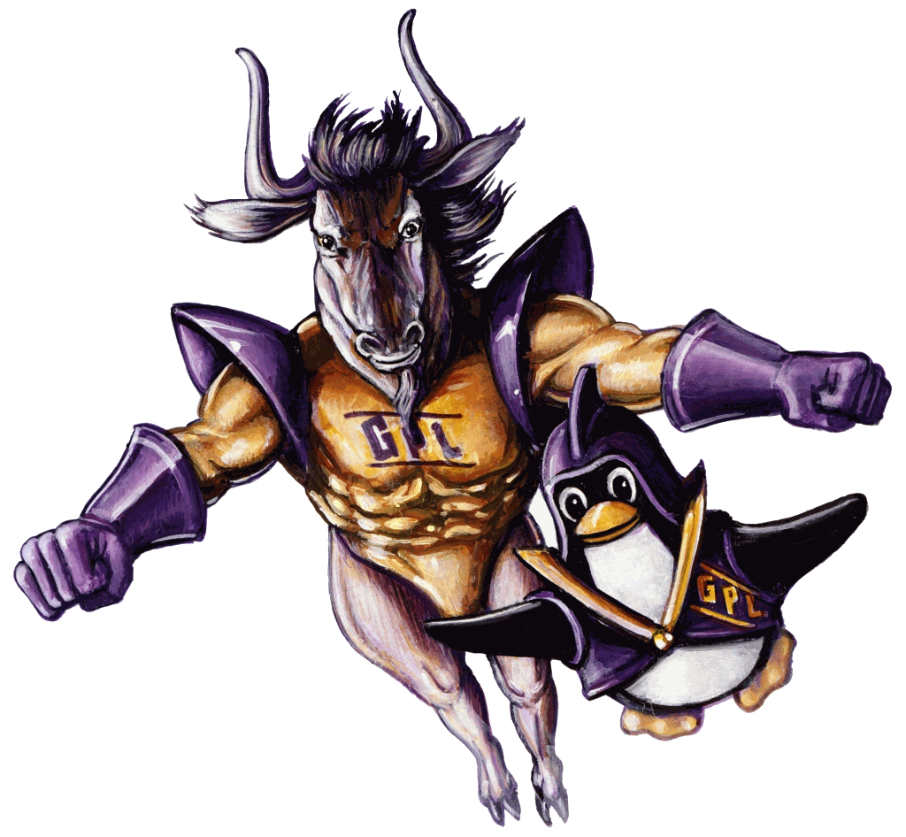 Auto-cropped transparent PNG version of Image:Gnu-and-penguin-color-300x276.jpg Cleaned up with the GIMP by Guanaco. FSF image of GNU and Linux penguin, from The GNU web site, entitled: The Dynamic Duo: The Gnu and the Penguin in flight. From the above web page: This image is Copyright (C) 1999, Free Software Foundation, Inc. Permission is granted to copy, distribute and/or modify this image under the terms of the GNU Free Documentation License, Version 1.1 or any later version published by the Free Software Foundation; with the no Invariant Sections, with no Front-Cover Texts and with no Back-Cover Texts. is:Mynd:GNU-Linux.png